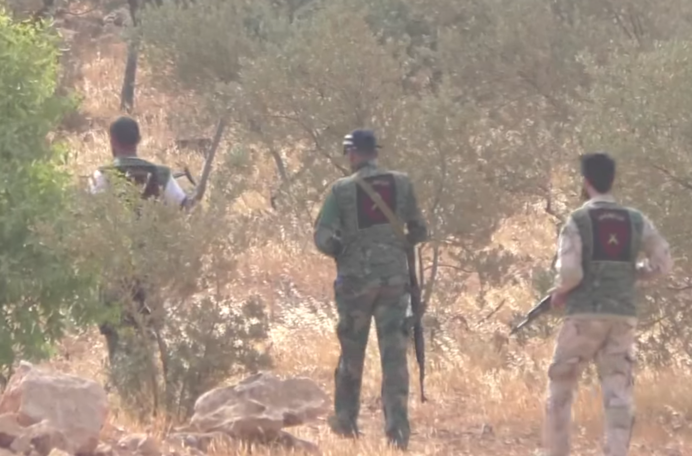 Military Security Shield Forces militiamen during a patrol in eastern Syria, 2017.